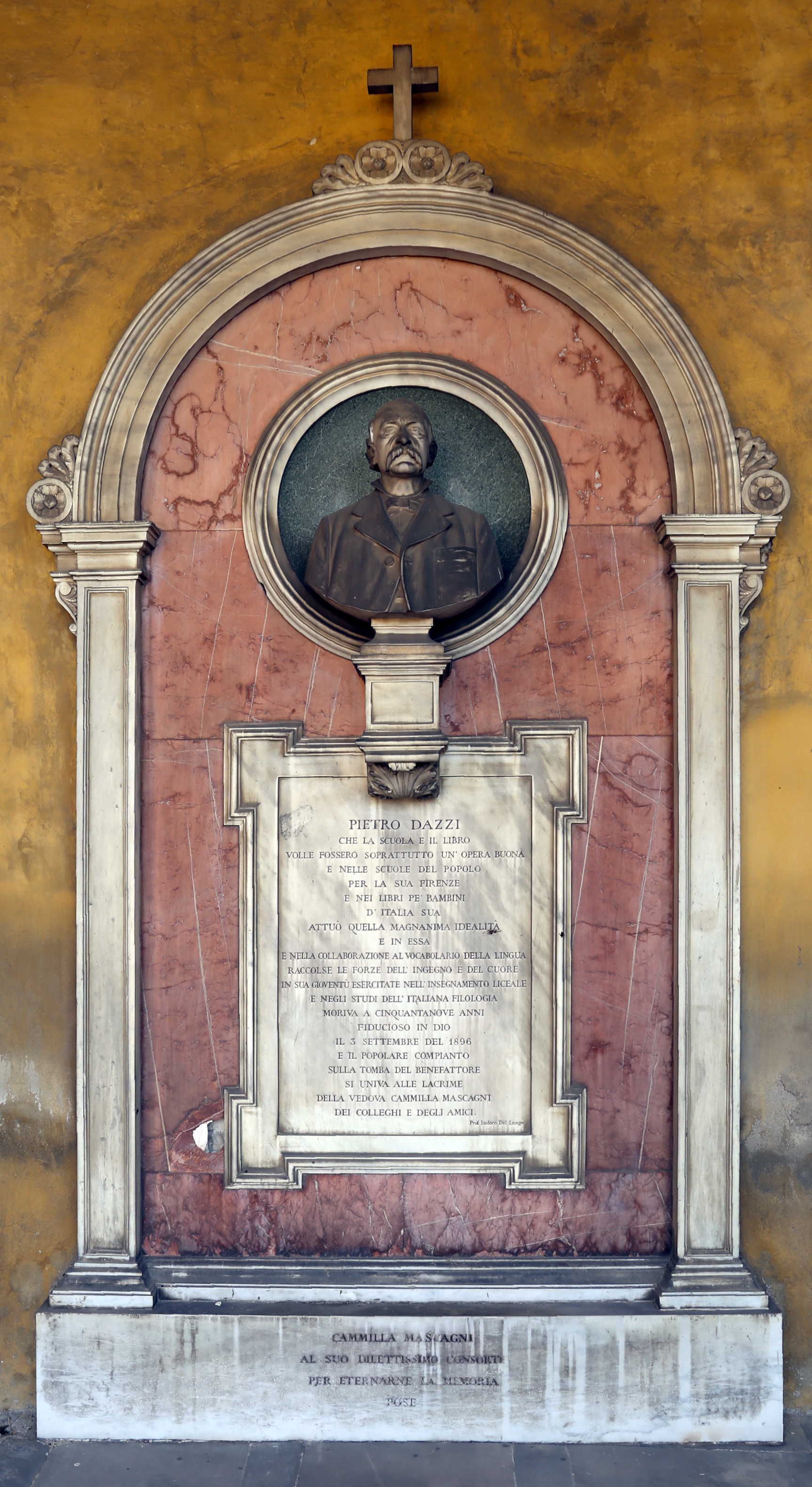 Cimitero della Misericordia (Florence)